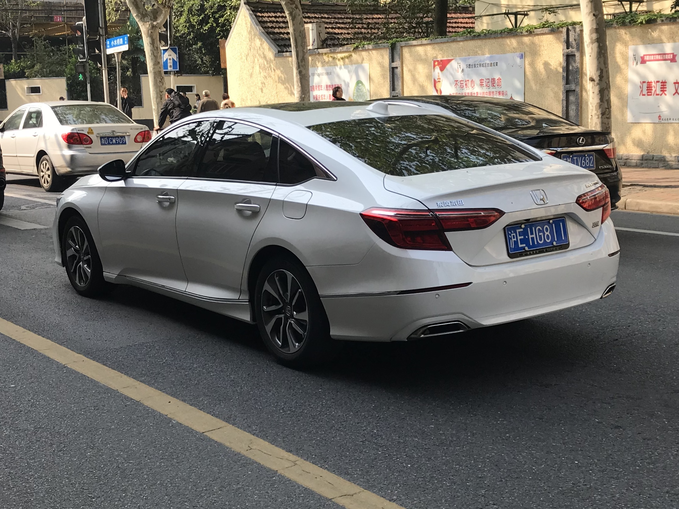 Honda Inspire rear